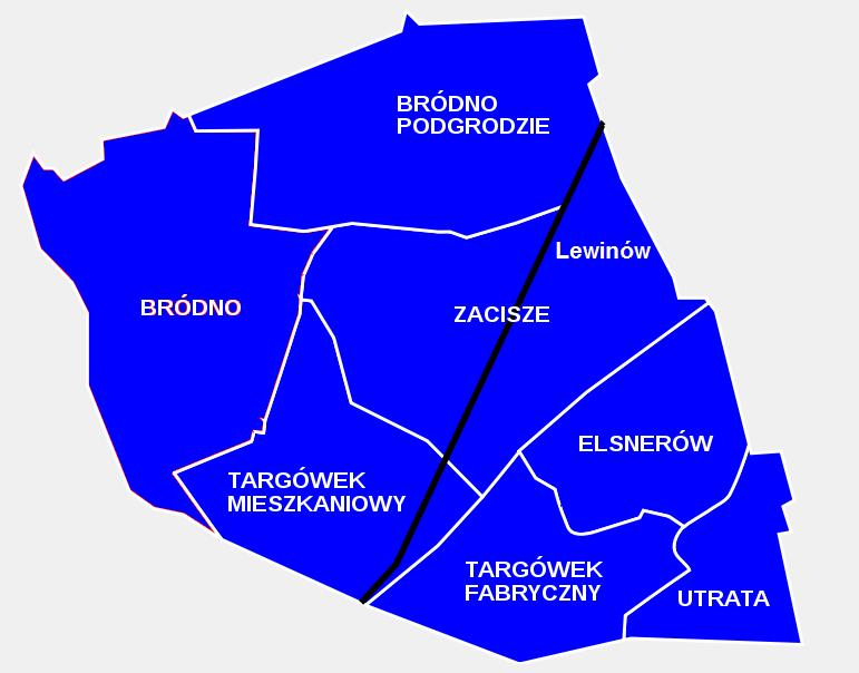 Location of Lewinow Part of Zacisze (Warsaw)